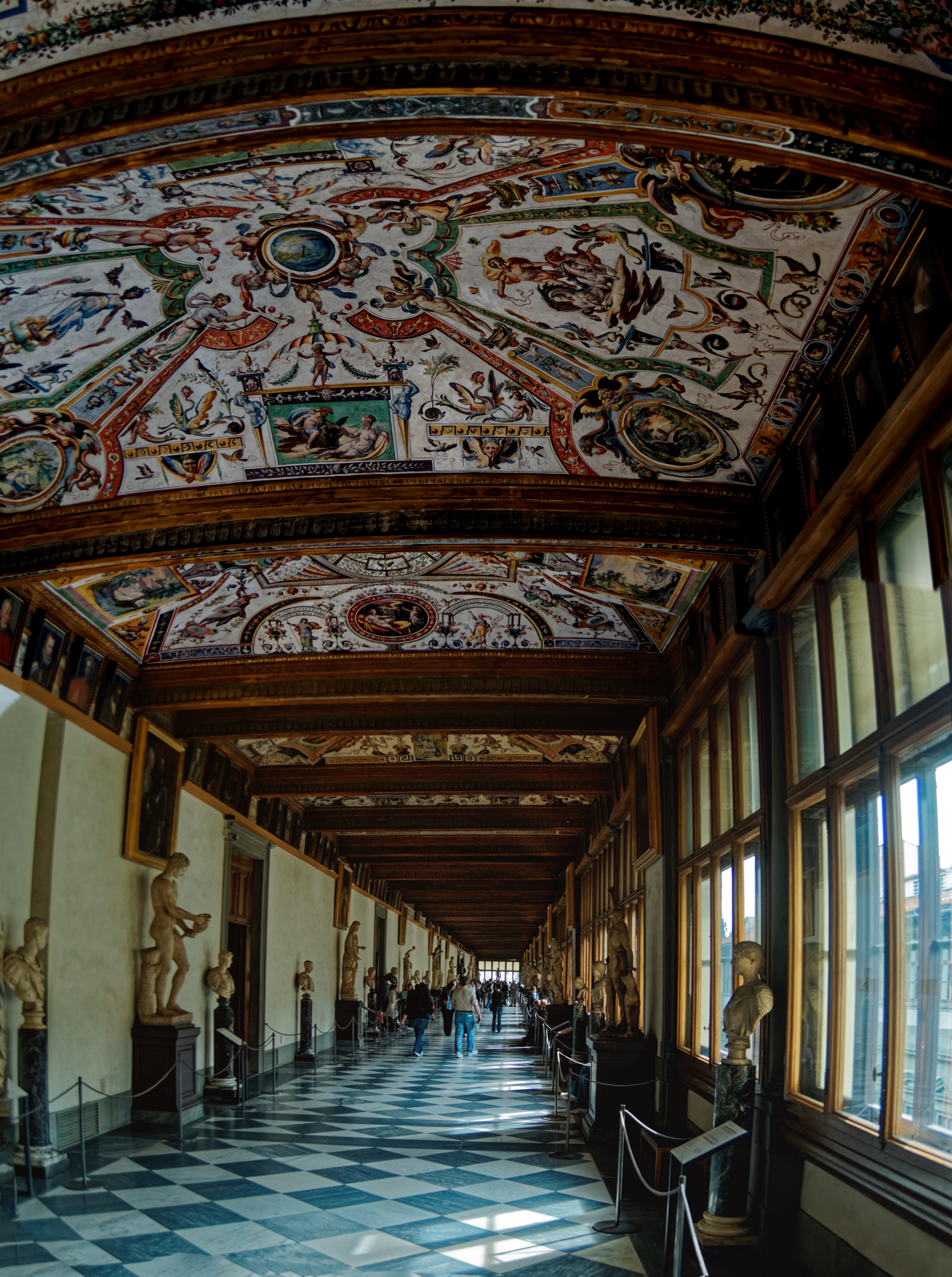 Firenze / Florence - Galleria degli Uffizi - Vasari Corridor 1566 - ICE Photocompilation Viewing SSW & Up